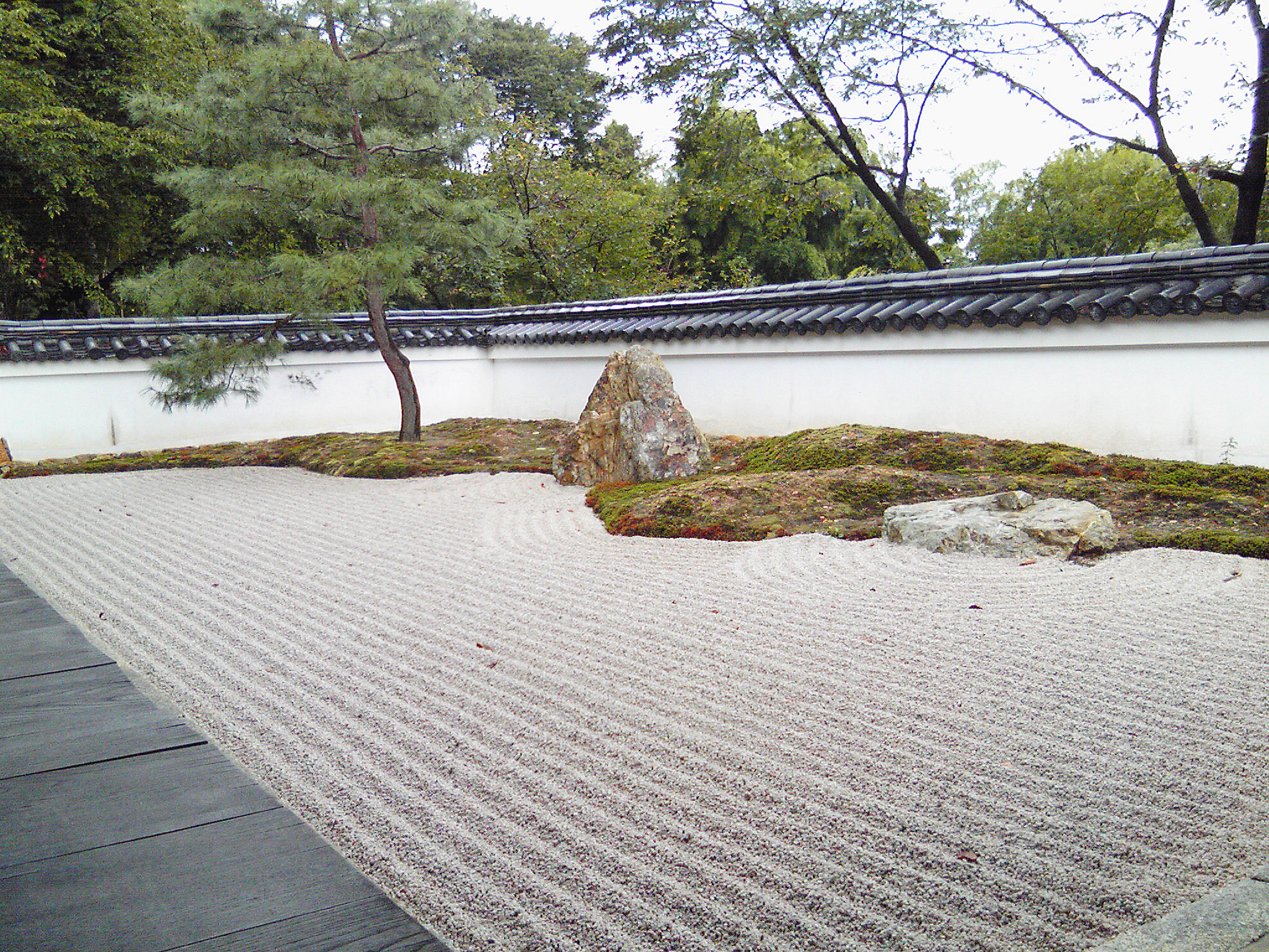 Myoko-ji in Ukyo-ku, Kyoto, Kyoto Prefecture, Japan